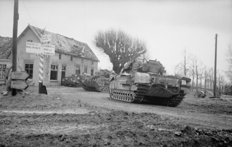 The British Army in North-west Europe 1944-45 Churchill tanks of 34th Tank Brigade in the Reichswald during Operation 'Veritable', 8 February 1945.